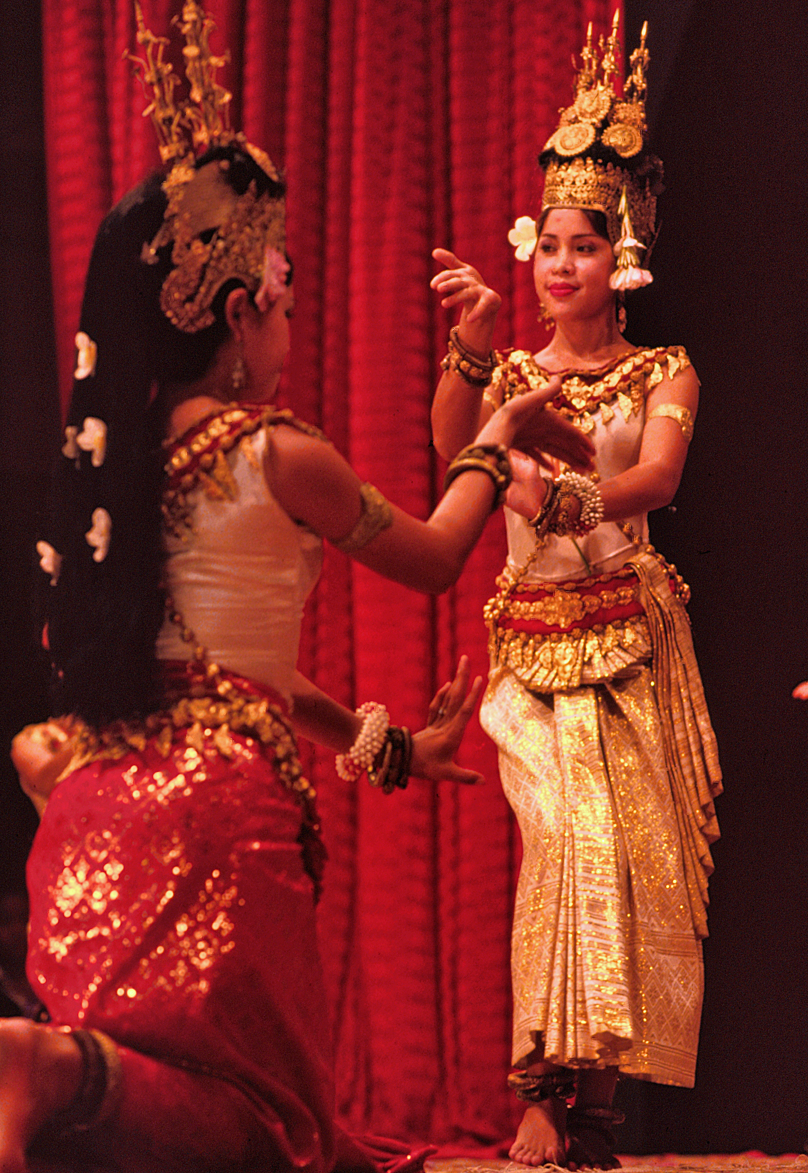 Apsara dancing in Siem Reab, Cambodia, December 2003.